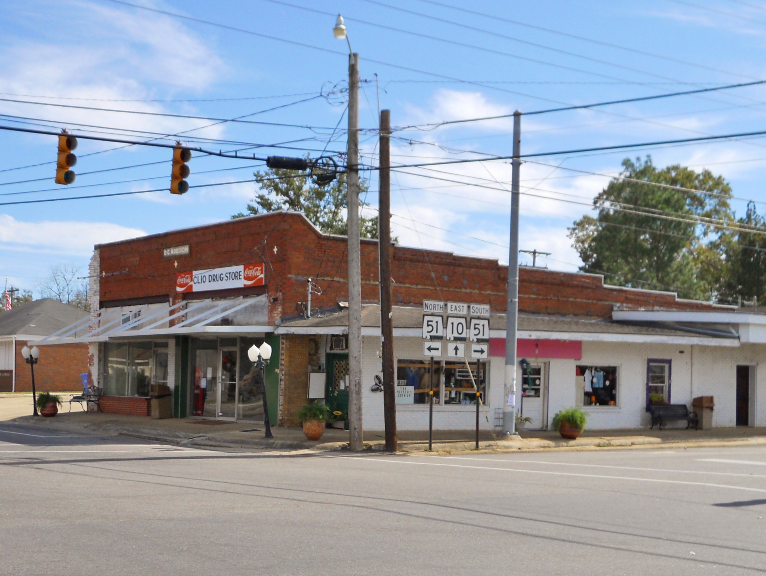 This is a photograph of Clio, Alabama.